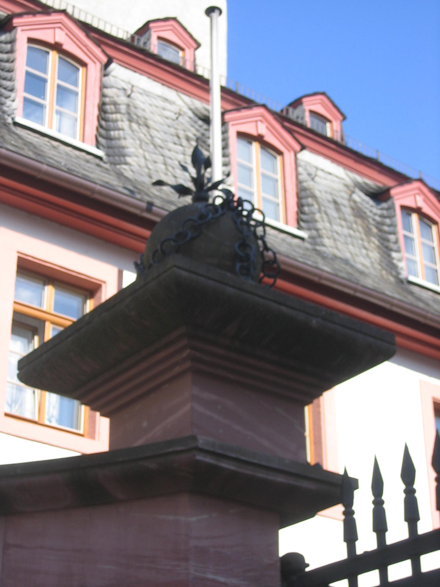 Commandry of the Sovereign Military Hospitaller Order of Saint John of Jerusalem of Rhodes and of Malta in Mainz. Chain decorated bomb with flames around it as an allegorie for the french artillery school.